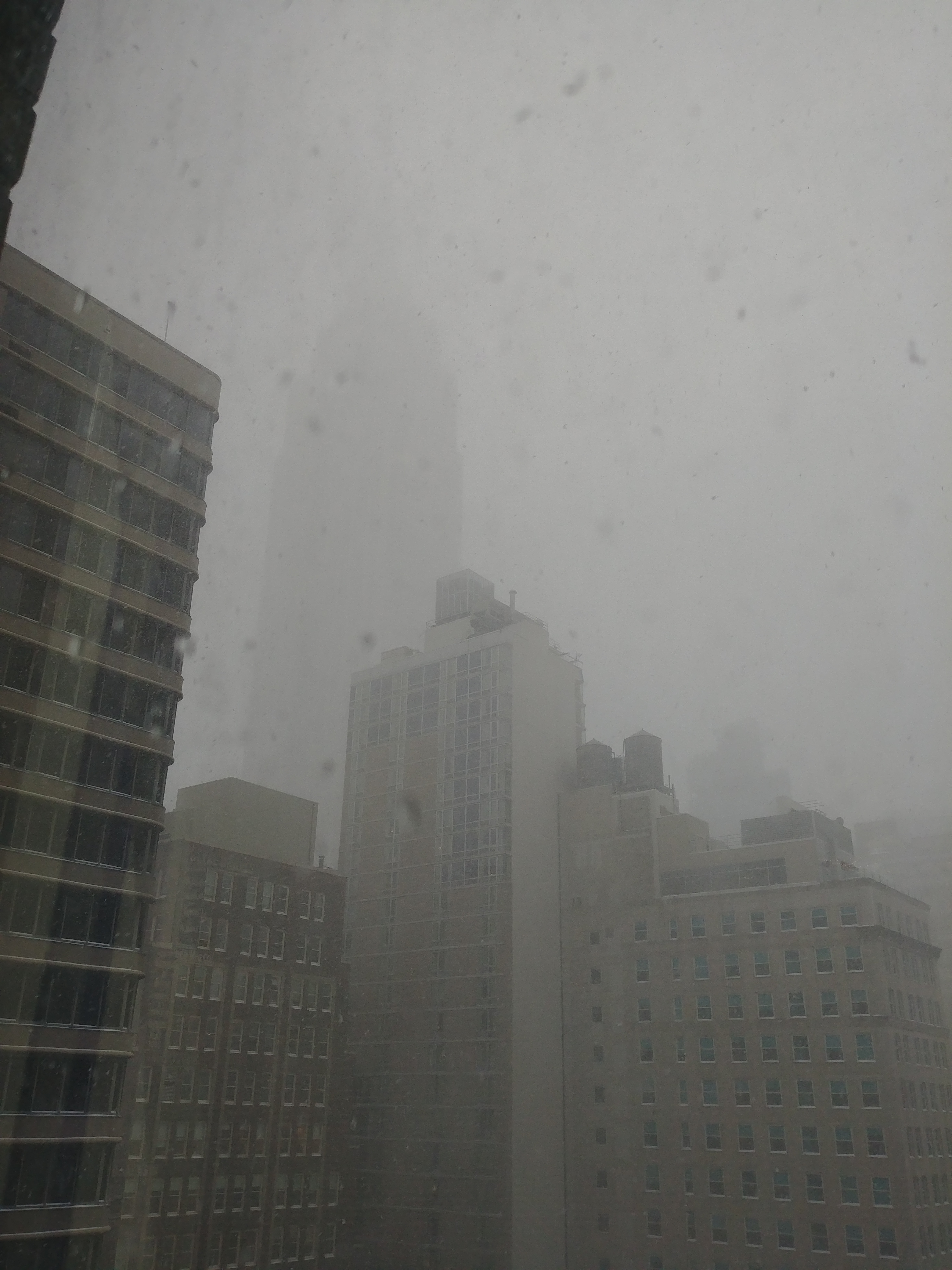 Empire State Building during the Jan 4, 2018 North American blizzard